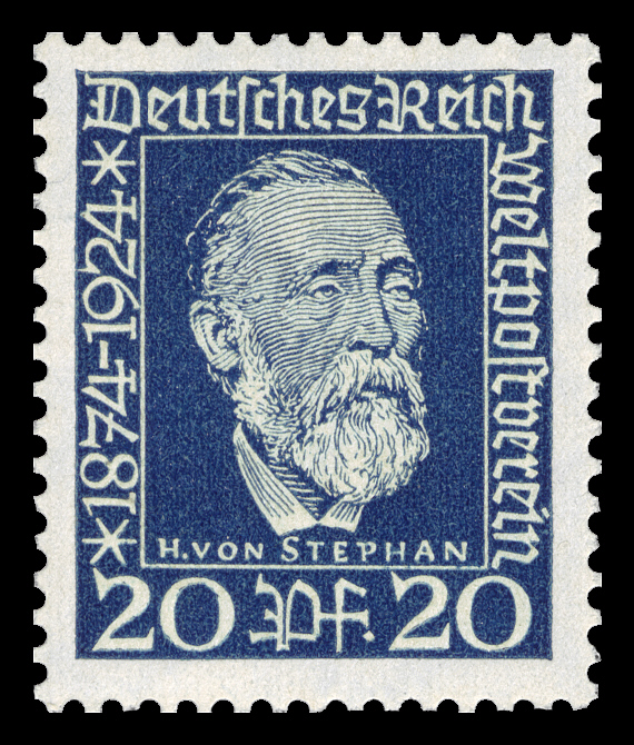 stamp for 50 years of the world post union, foundet by Heinrich von Stephan (1831-1897) Graphics by unbekannt Ausgabepreis: 20 Pfennig First Day of Issue / Erstausgabetag: 9. Oktober 1924 Michel-Katalog-Nr: 369 (Deutsches Reich)